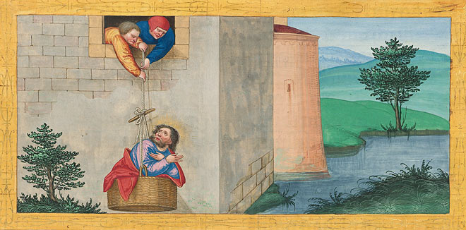 The Escape of Paul